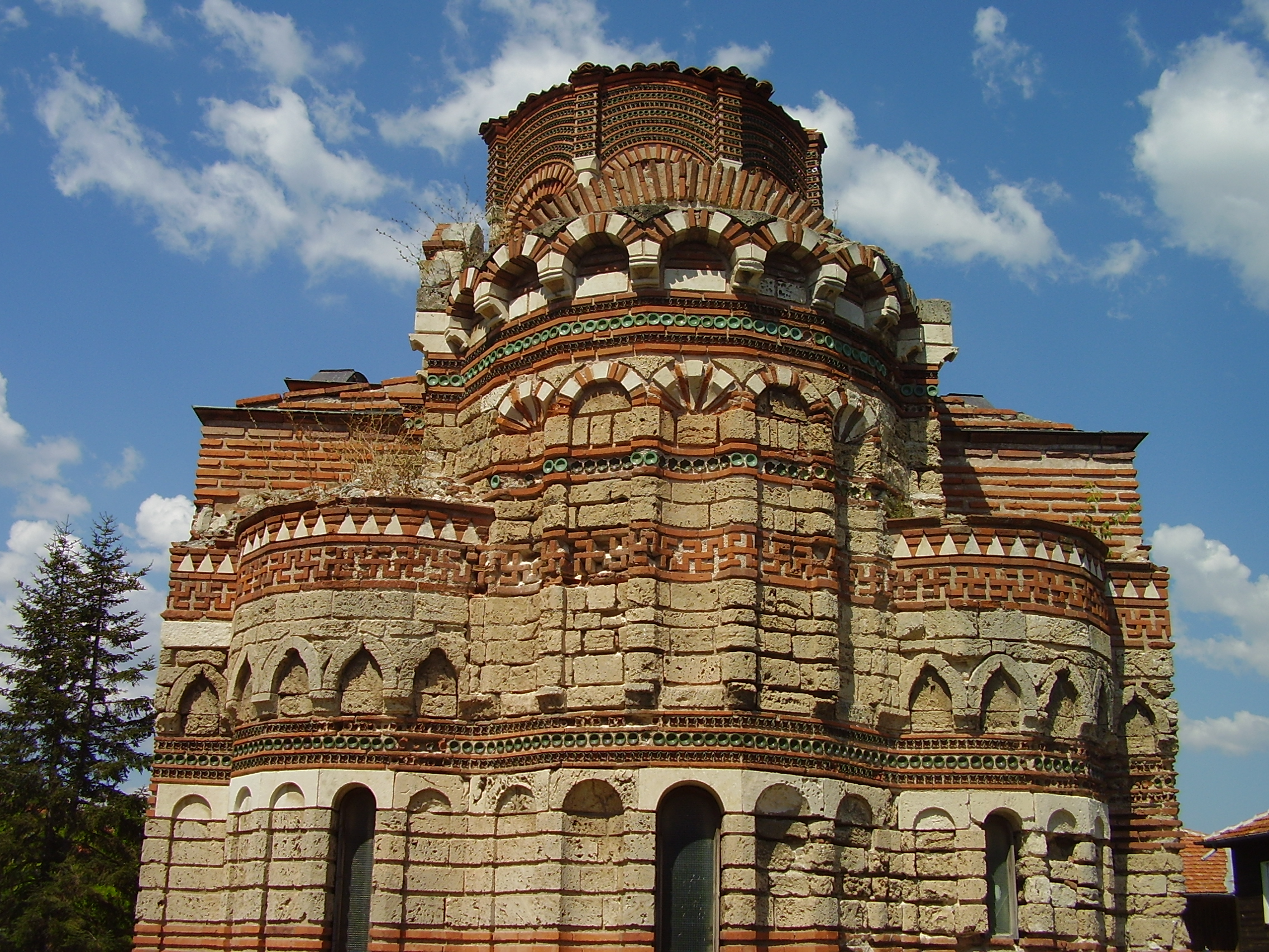 Sunny Beach, Bulgaria, july/august 2008